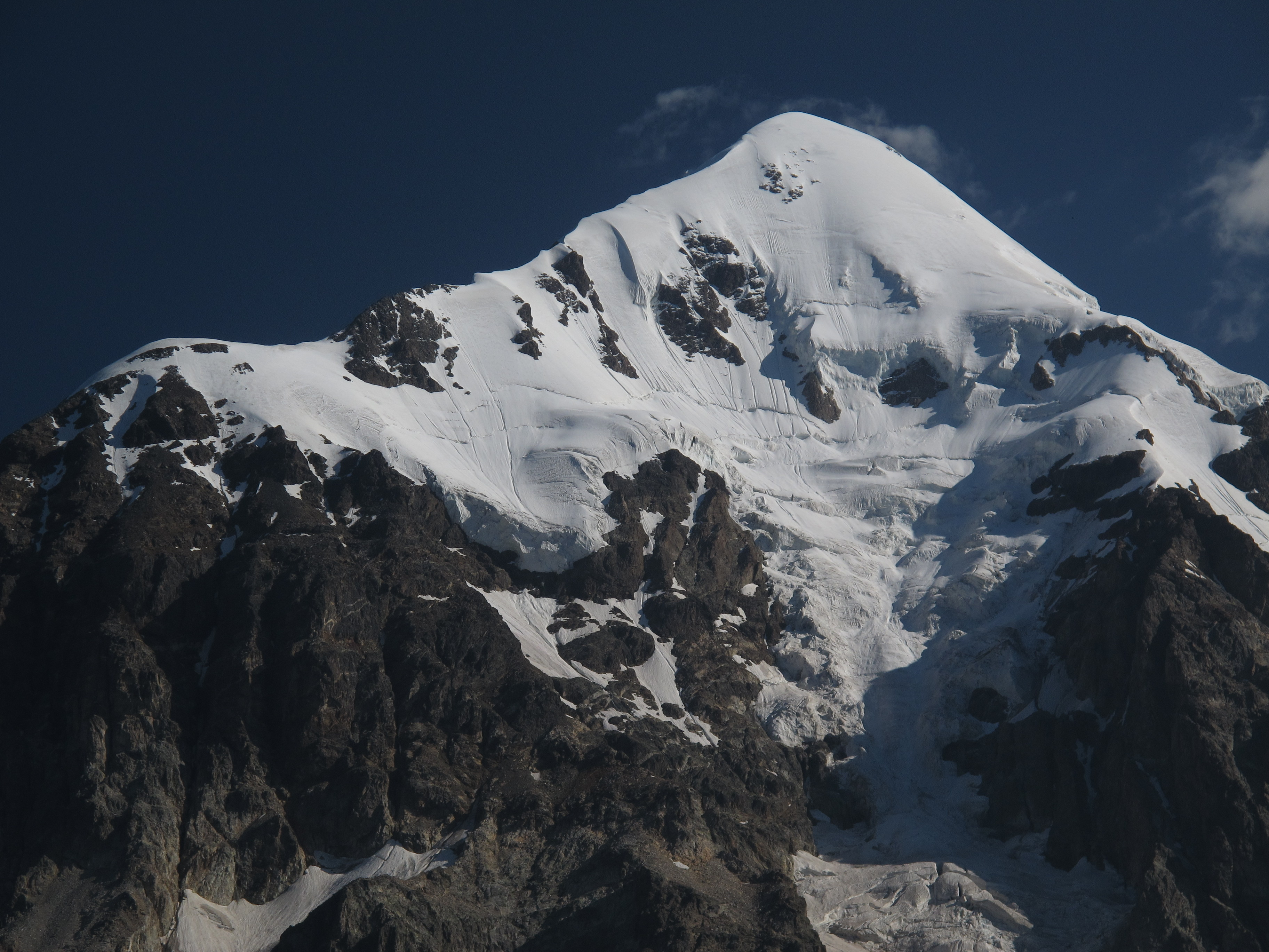 Summit of Tet Nuldi (4858 m) from Tschunderi pass